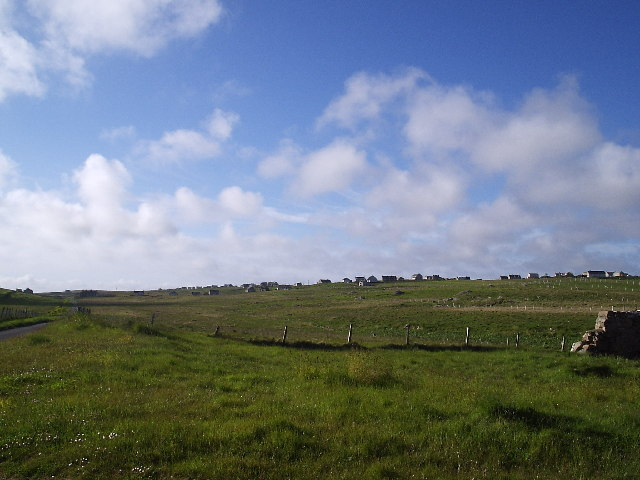 Looking north towards Pabail, Outer Hebrides, Scotland. The crofts and houses of Pabail Iarach and Pabail Uarach are spread out over the land in Lewis's Eye peninsula.